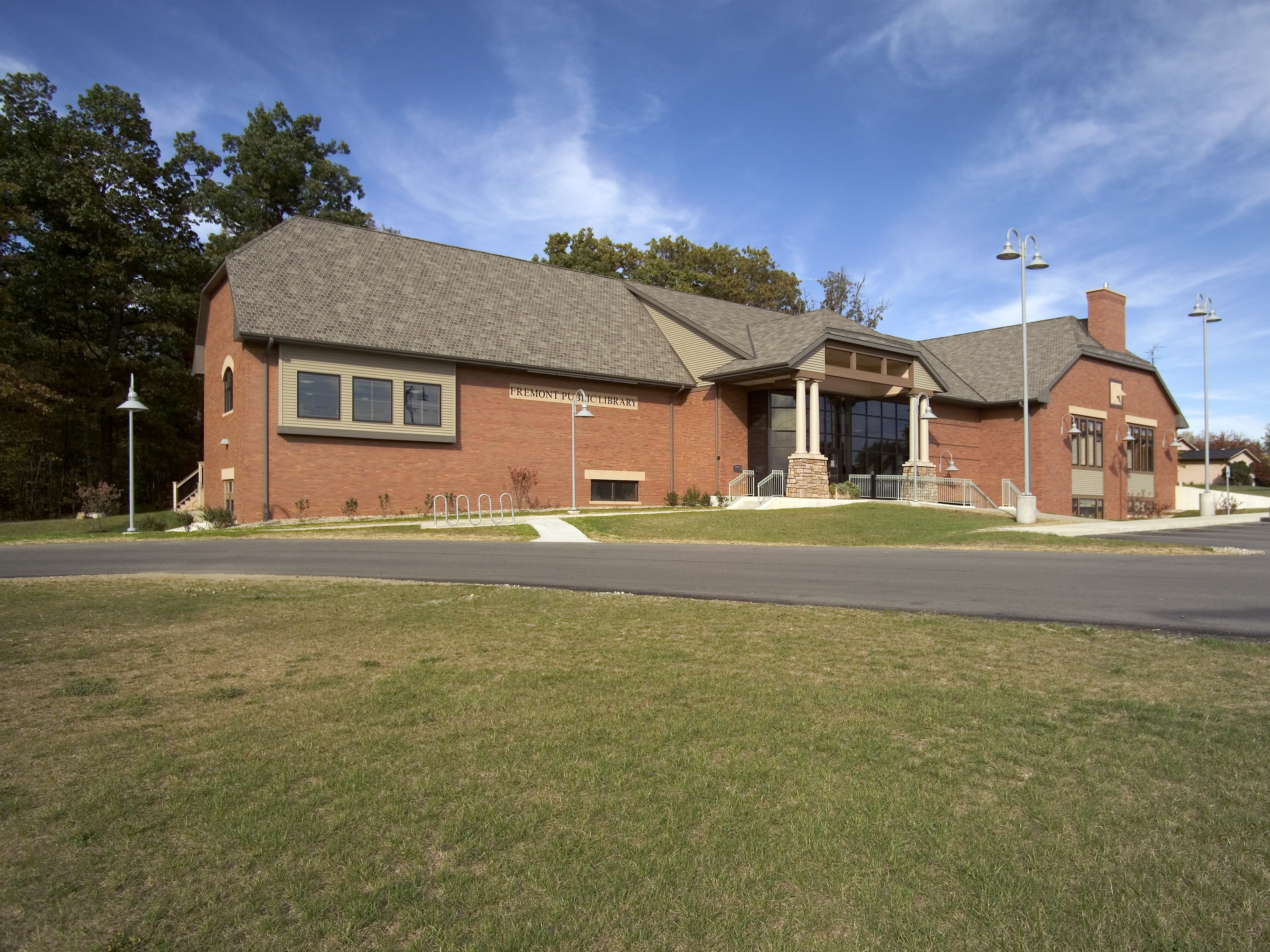 A photo of the Fremont Public Library.